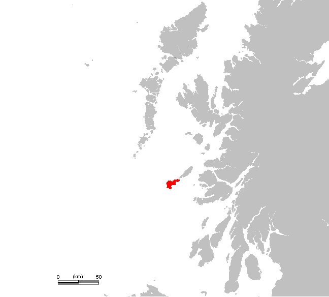 UK Tiree.PNG (Scotland, Hebrides)